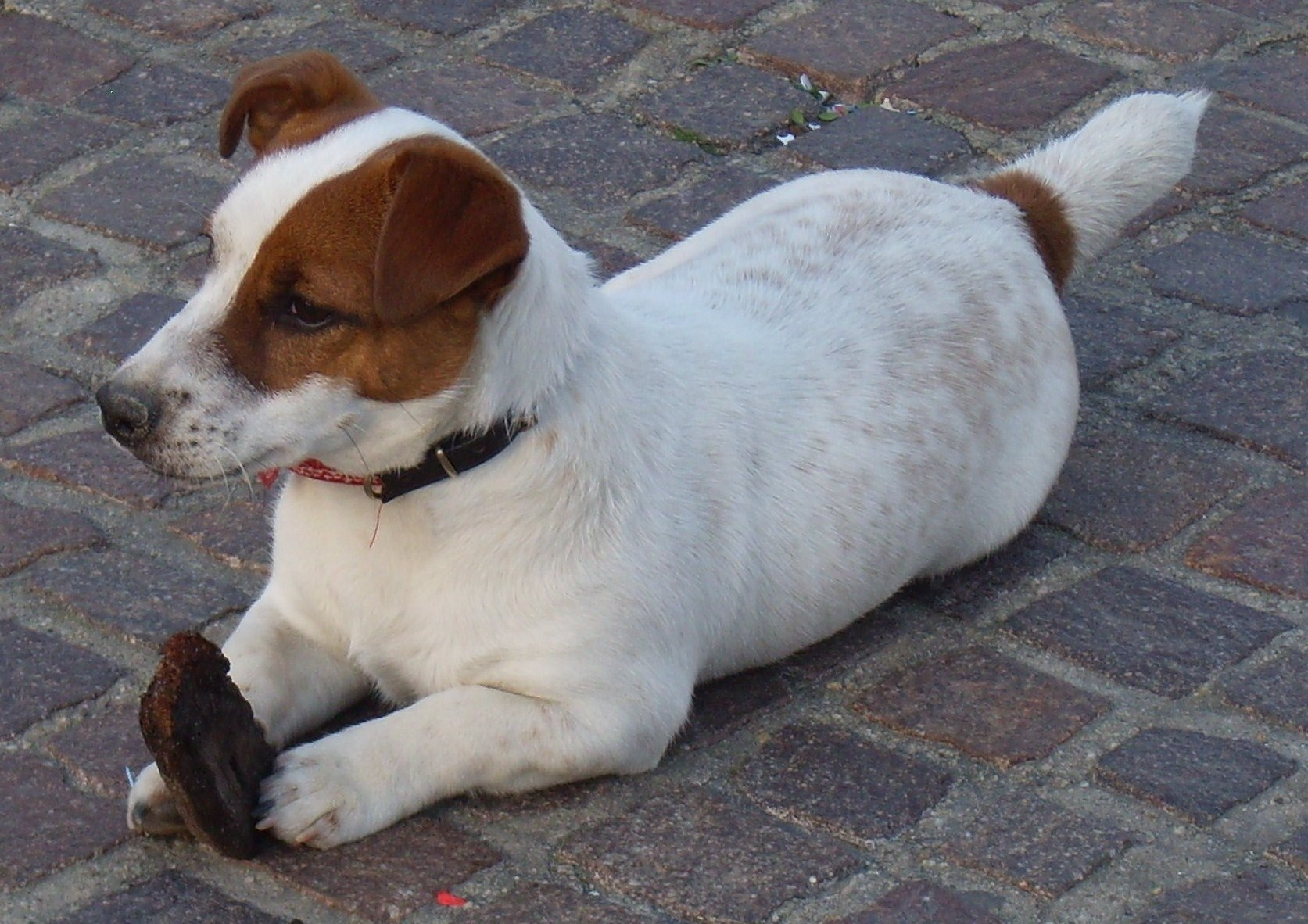 Jack Russell Terrier puppy